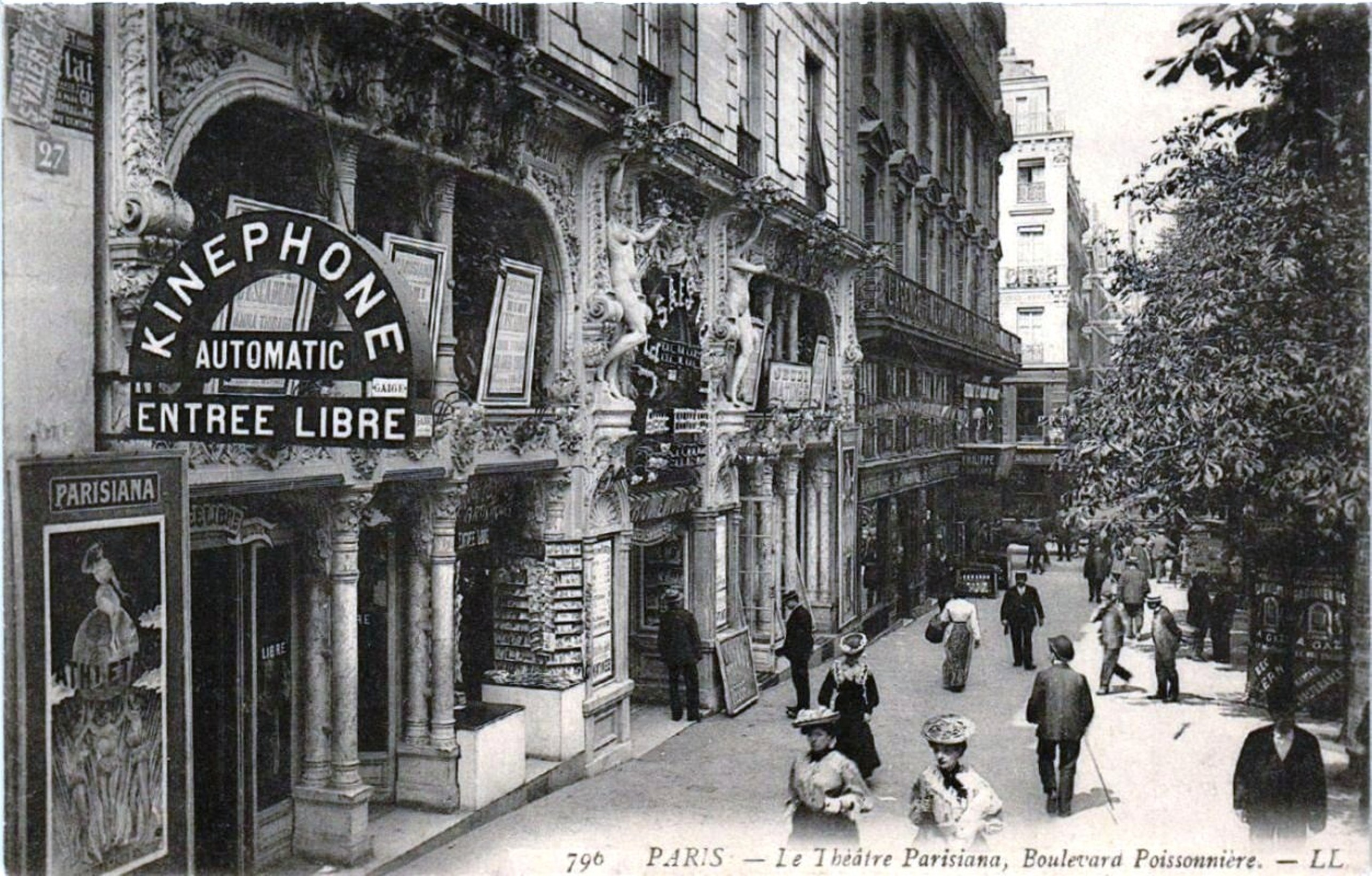 The Parisiana is a Parisian concert hall built on the plans of the architect Édouard Jandelle-Ramier at the Belle Époque.